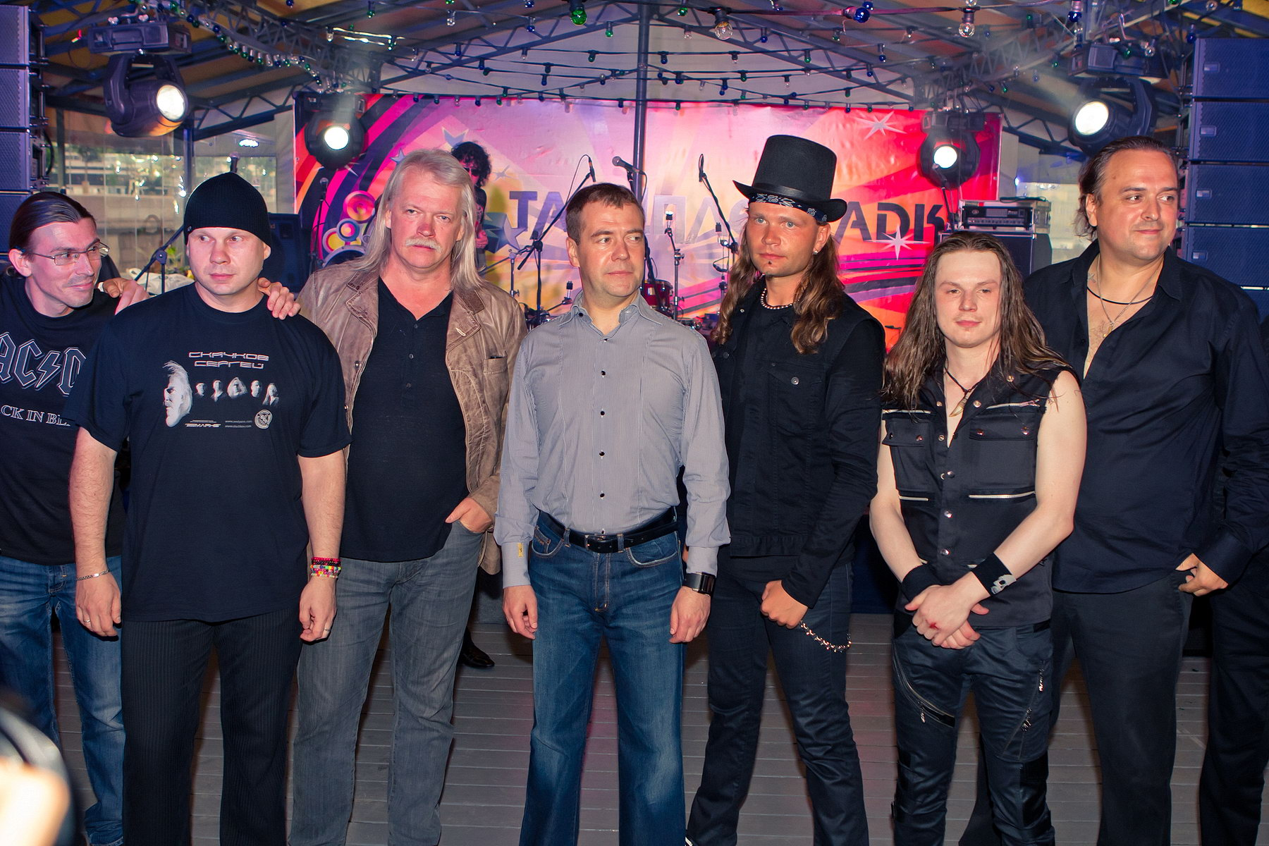 Sergey Skachkov Zemlyane + Dmitriy Medvedev prezident Russia, 16.06.2012(3)